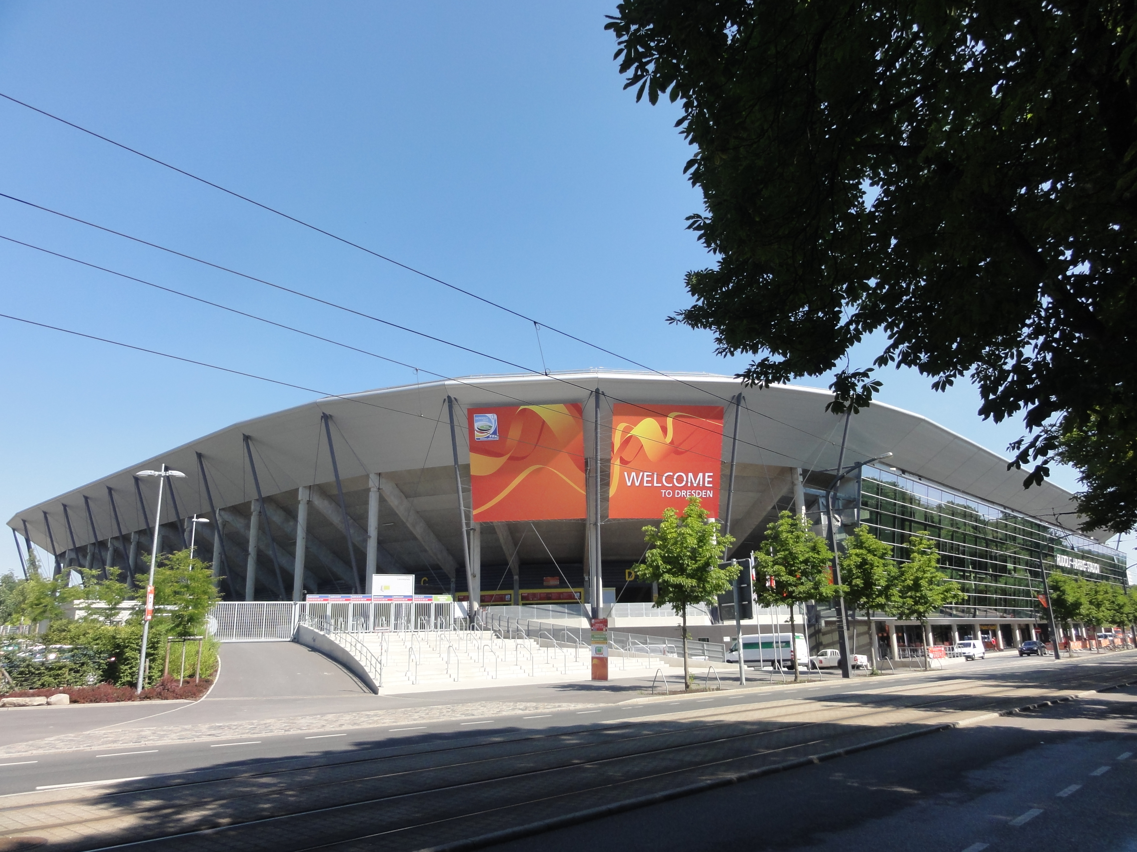 The surroundings of the match location Dresden at Women's World Cup 2011. The US team won versus the North Koreans 2:0 among 21,859 spectators.